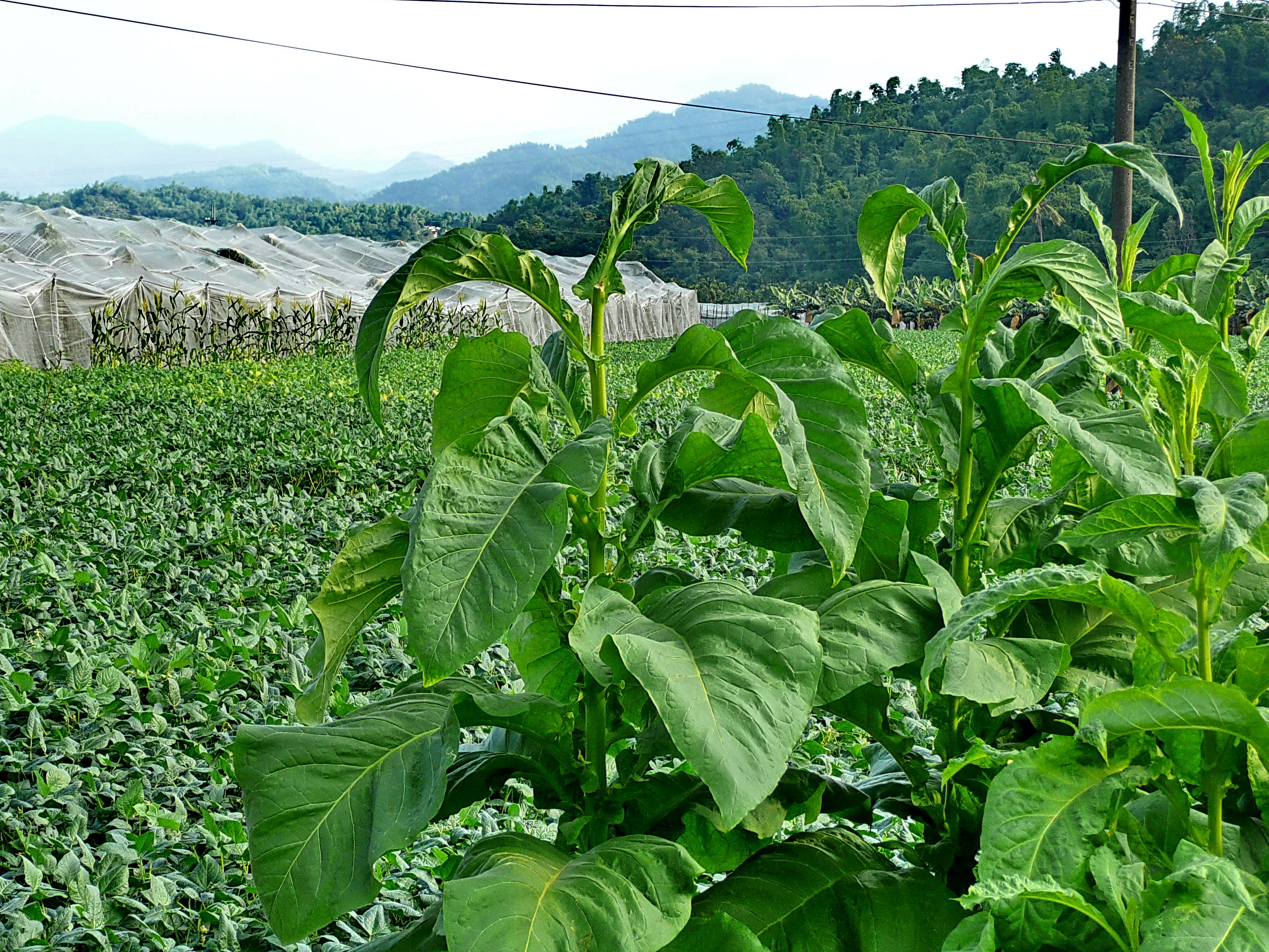 菸田 Tobacco Fields